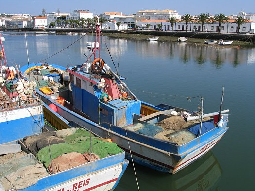 Fishing boat in Tavira, Algarve, Portugal.